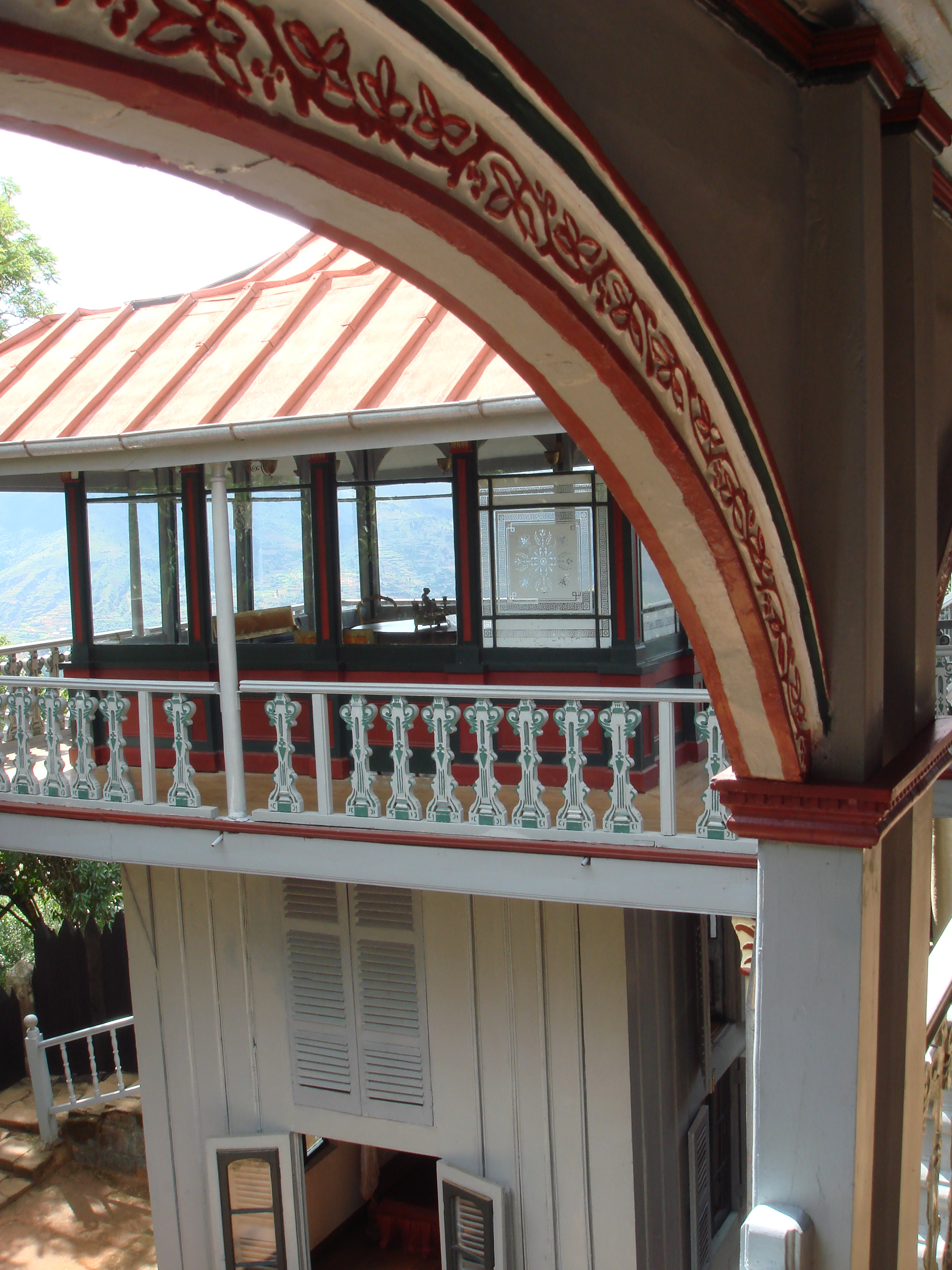 Queen's sumer palace at Ambohimanga Madagascar. Ambohimanga, Madagascar